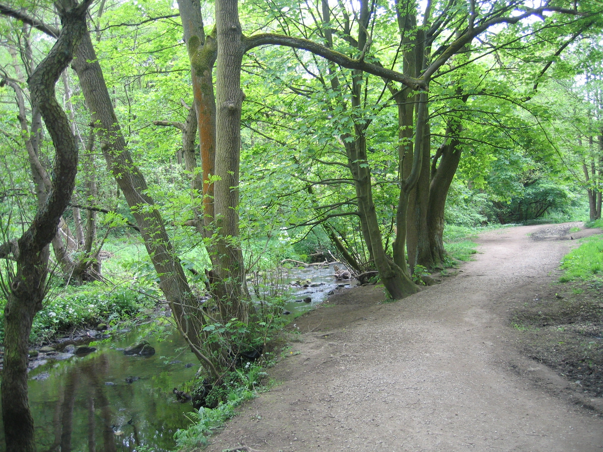 Meanwood Valley Trail, in Meanwood Woods, near the Hollies, looking South with Meanwood Beck on the left